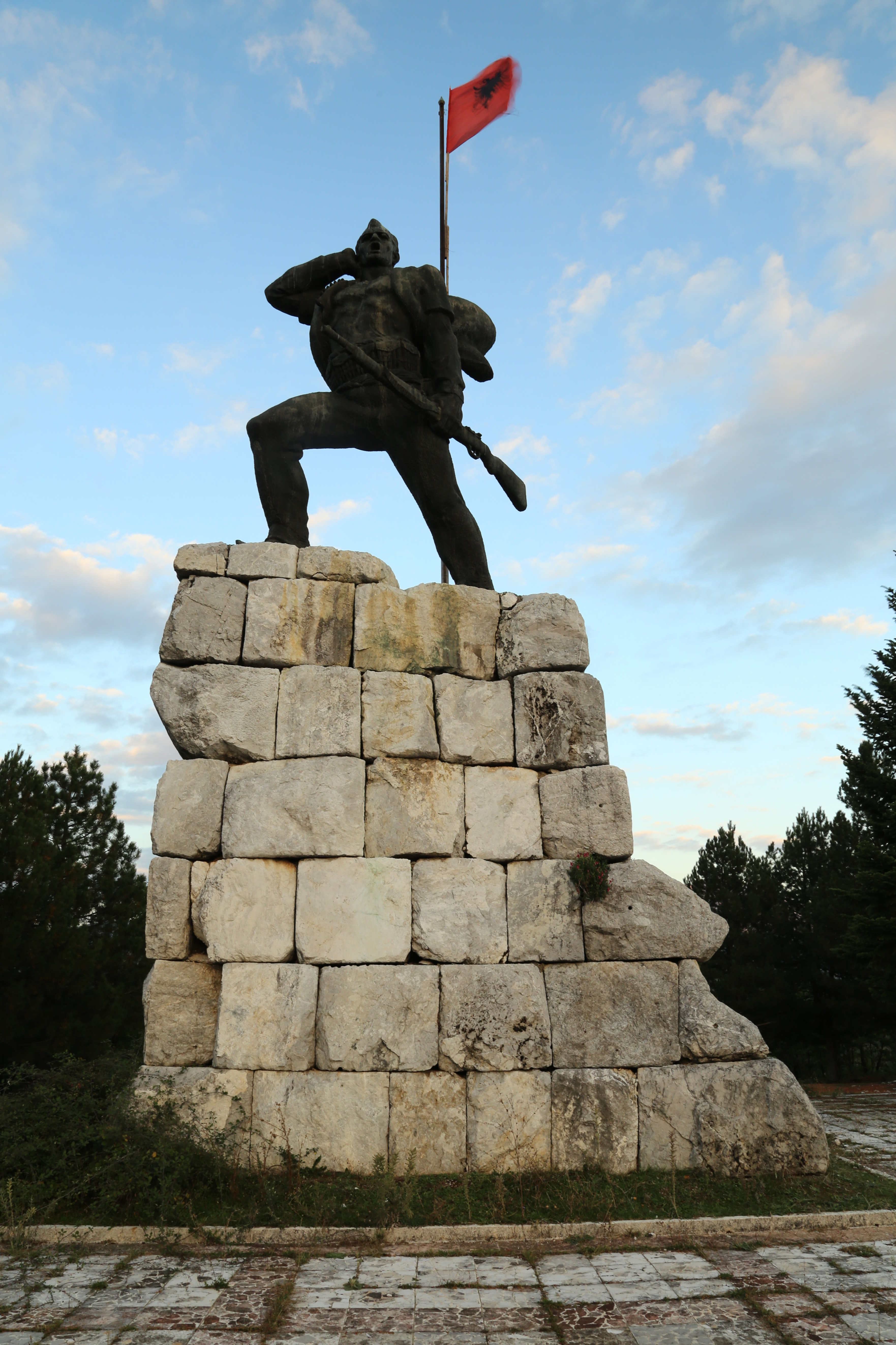 Town of Bajram Curri in Albania Statue of the Unknown Solider